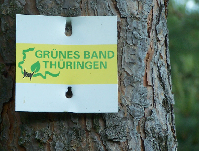 A sign of the GREEN BELT in Thuringia near Treffurt.